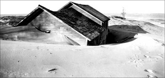 Singapore, Michigan, early 1900s